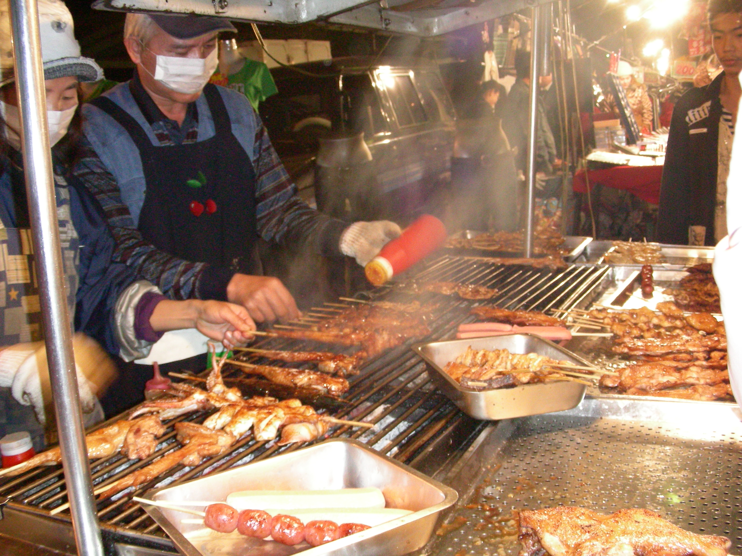 BBQ in Taiwan Night marketDSCN6060